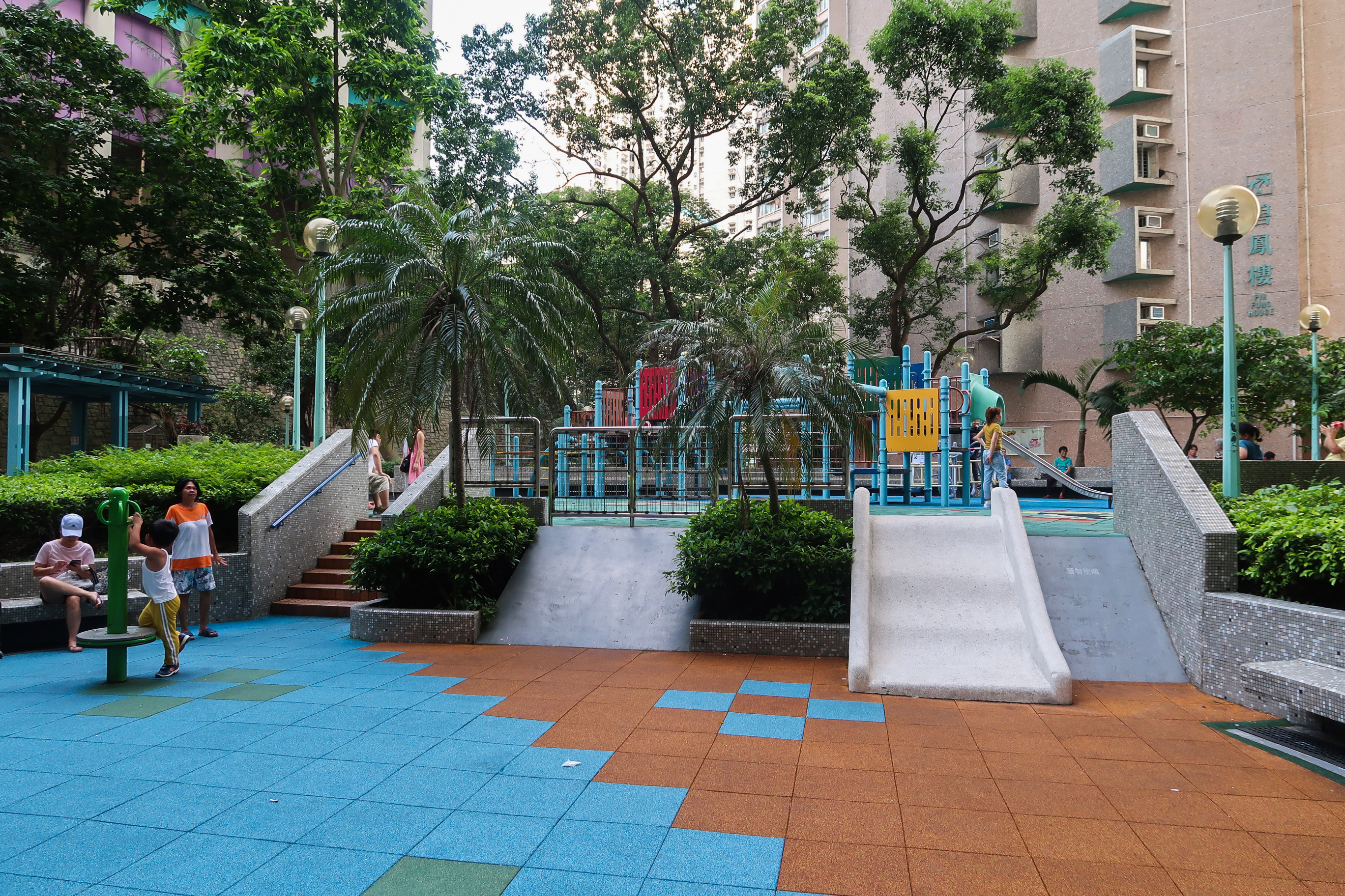 Fung Tak Estate Children Play Area concrete slide